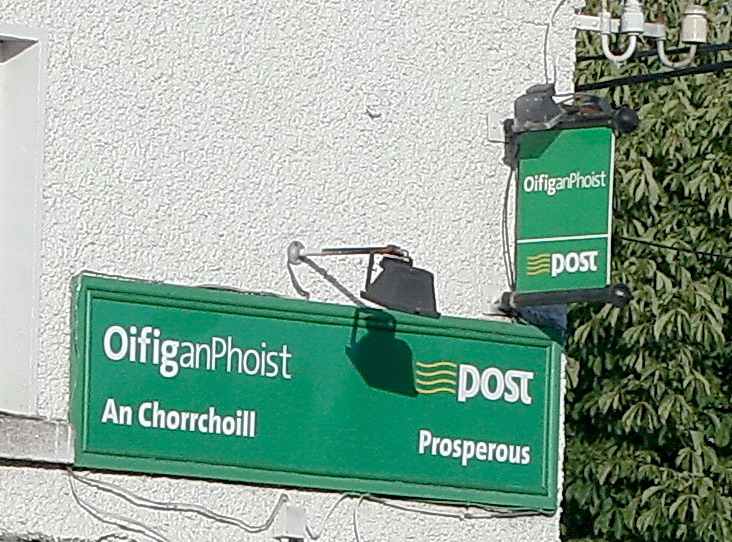 The new An Post branding scheme; the previous one on the hanging sign